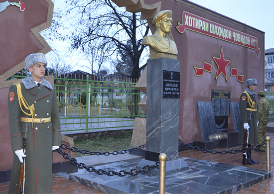 Военнослужащие российской военной базы в Республике Таджикистан и юнармейцы школы № 6 Министерства обороны Российской Федерации приняли участие в митинге, посвящённом 29-й годовщине вывода советских войск из Афганистана